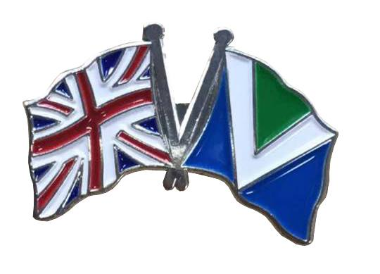 The first pin badge with the International Vegan Flag and the Union Jack